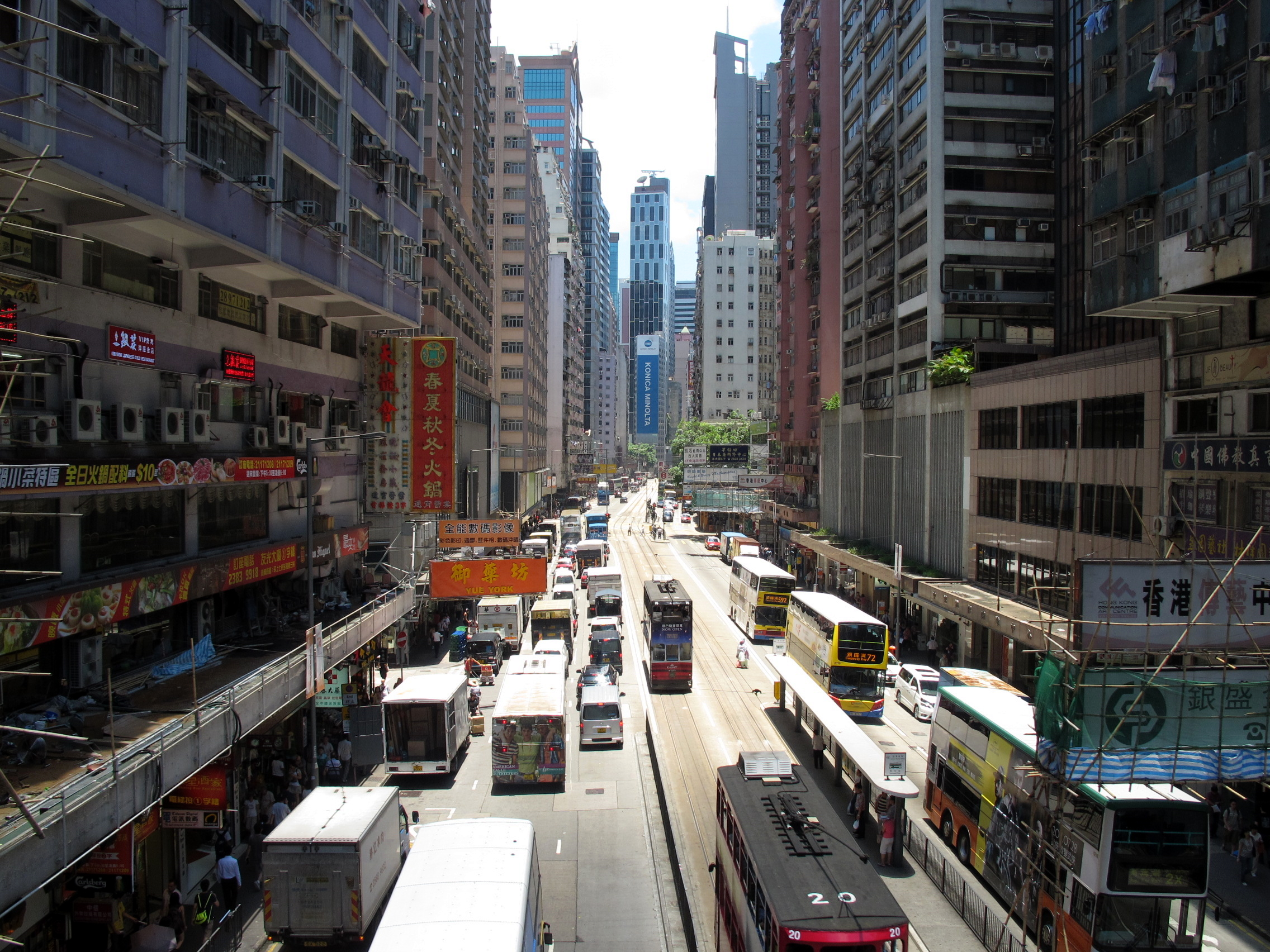 Hennessy Road